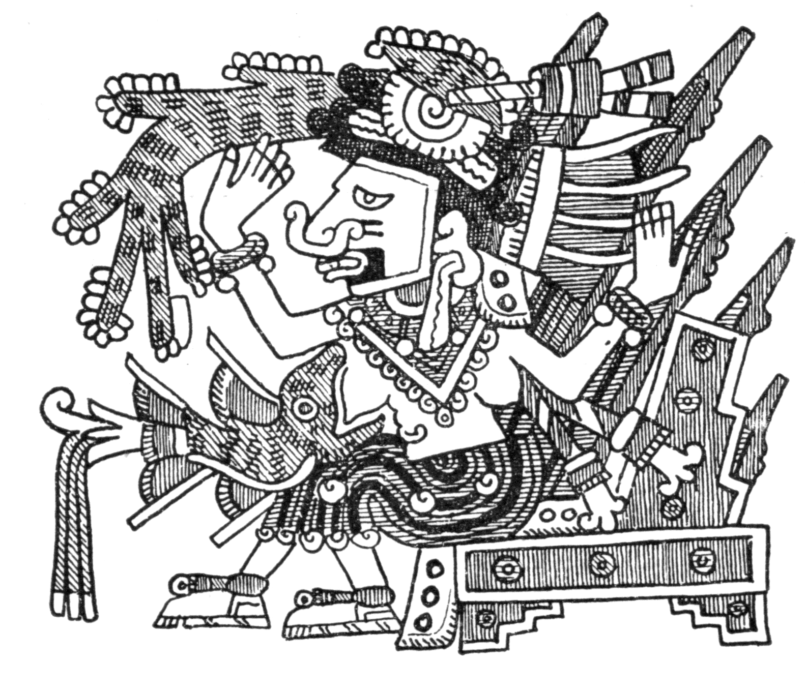 Image of Mayáhuel, Aztec Goddess of the maguey or agave